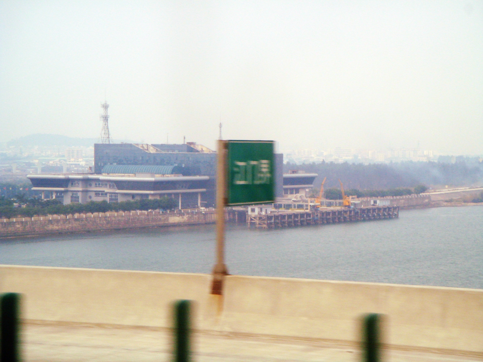 Jiangmen(China) dock from/to Hong Kong & Macau